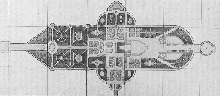 Gardens of Herrenchiemsee Palace (unfinished)